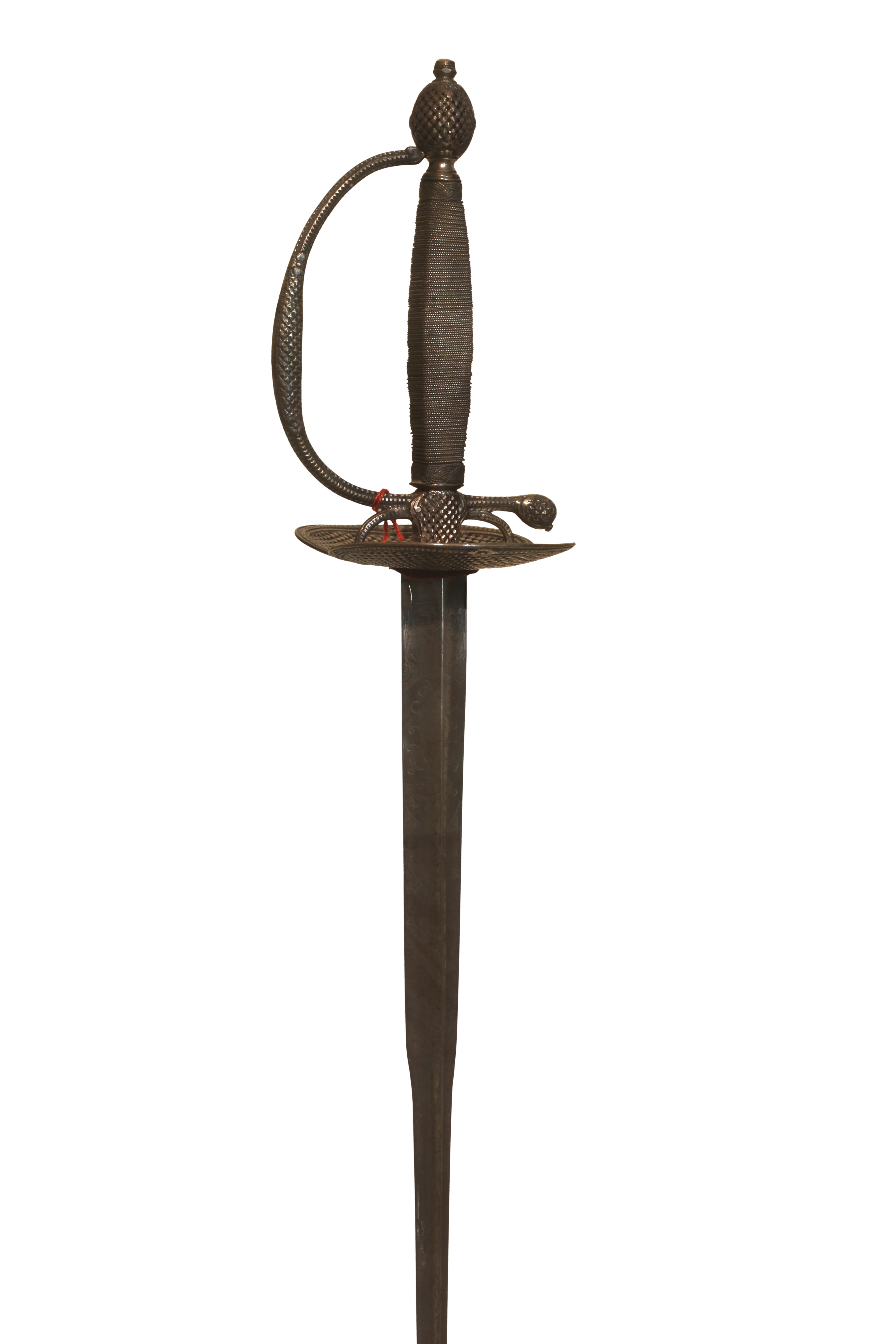 Colichemarde sword. Silver guard, 18th century. On display at Vevey historical museum, accession number 1205